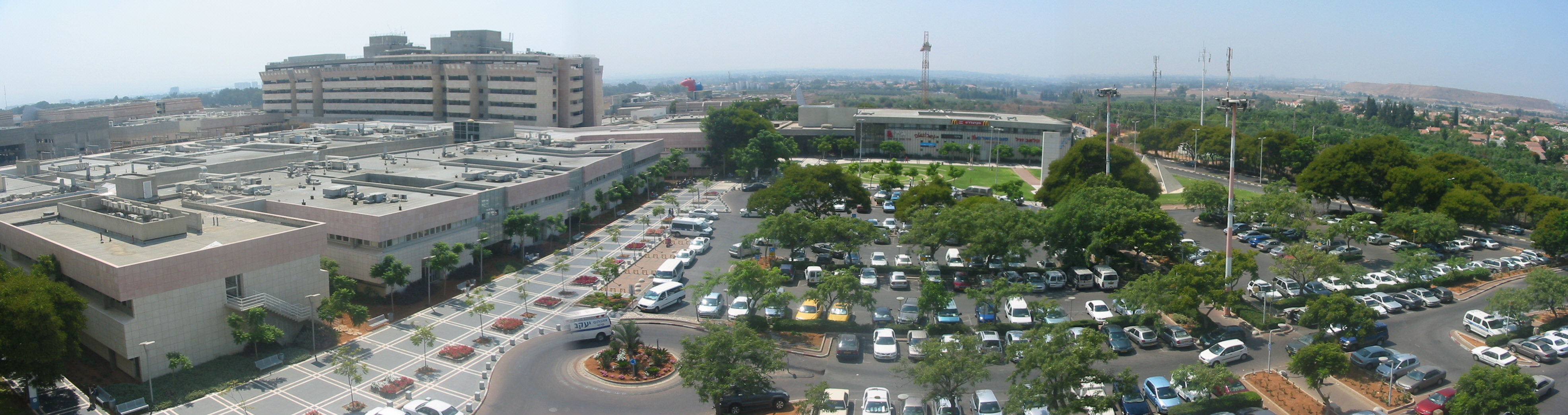 Main Sheba Hospital wing, picture taken from the top of the parking tower from the north